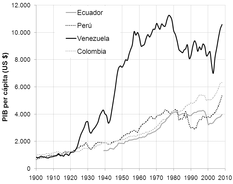 Comparison of GDP per capita of some countries in South America Source: Angus Madisson, World Population, GDP and Per Capita GDP, 1-2010 AD